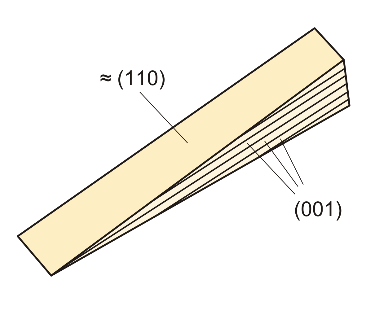 Drawing of a wedge-shaped aggregate of krieselite lamellae; reference: J. Schlüter et al. (2010), Neues Jahrbuch Mineralogie, Abhandlungen Vol. 187/1, p. 376